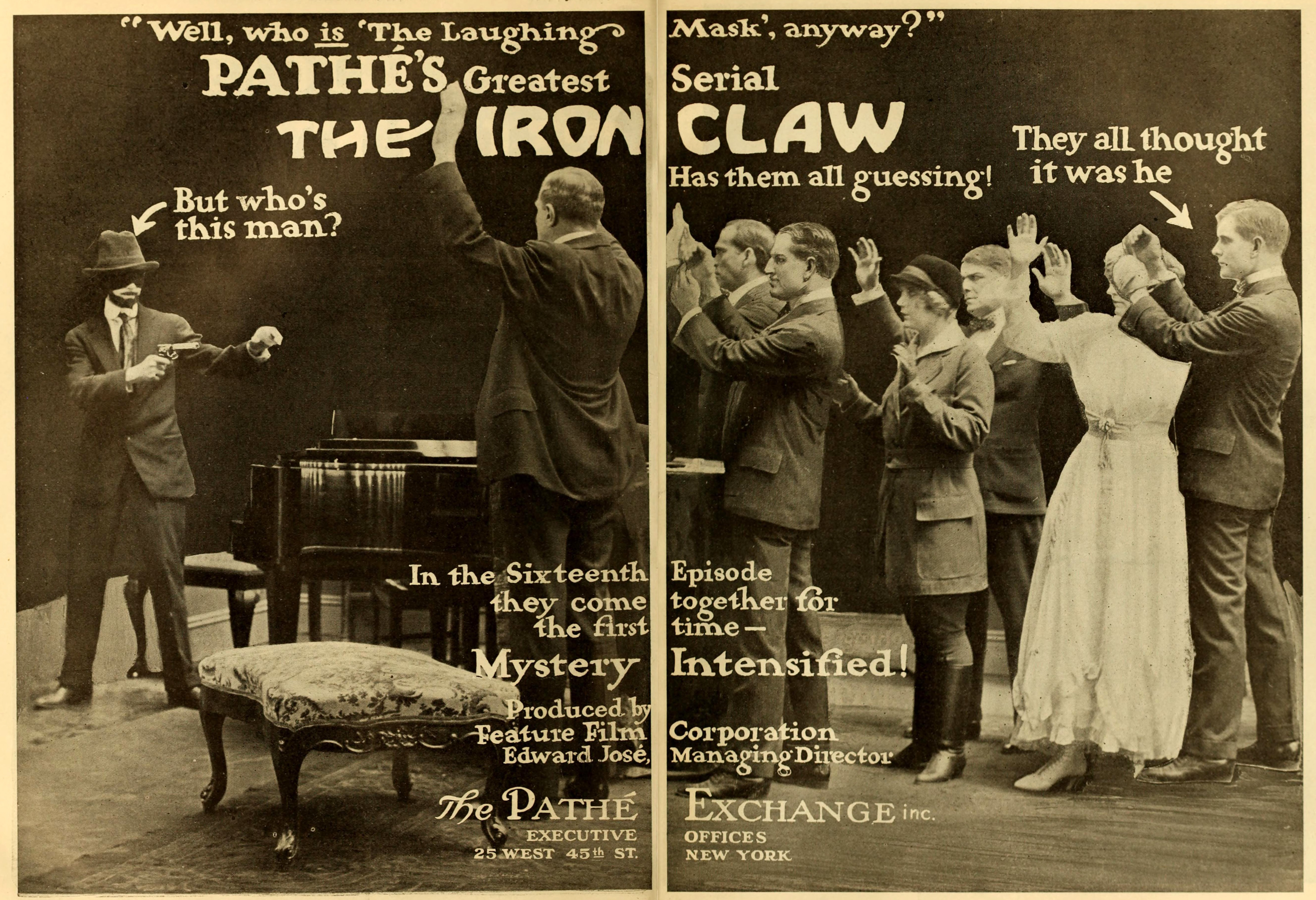 Advertisement in The Moving Picture World